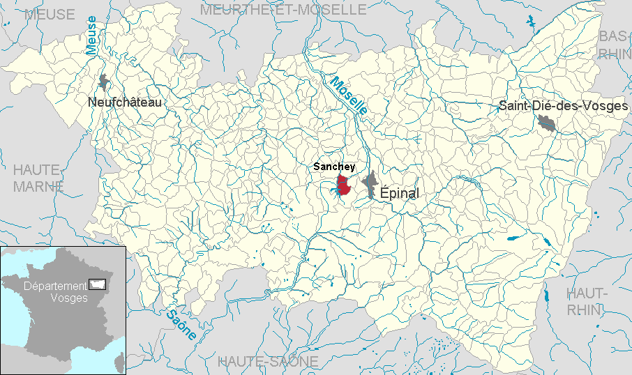 Sanchey in the department of Vosges, Lorraine, France